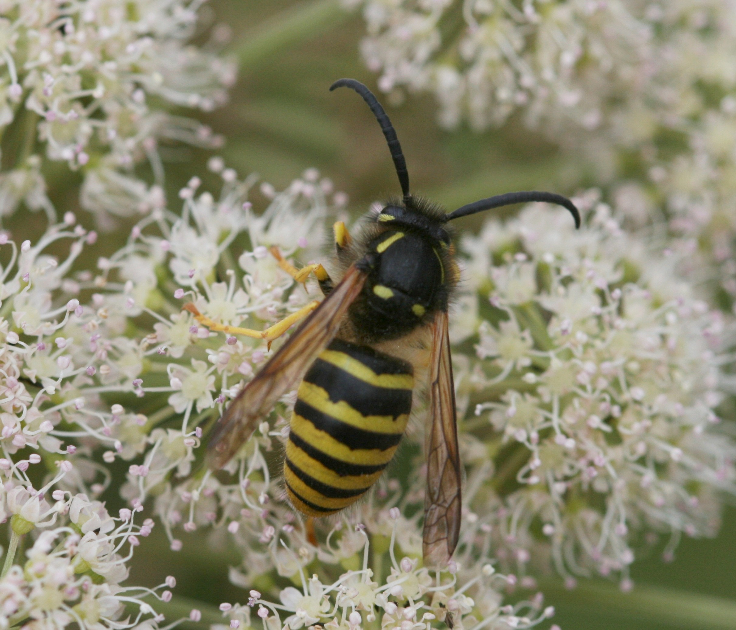 The Tree Wasp (Dolichovespula sylvestris)